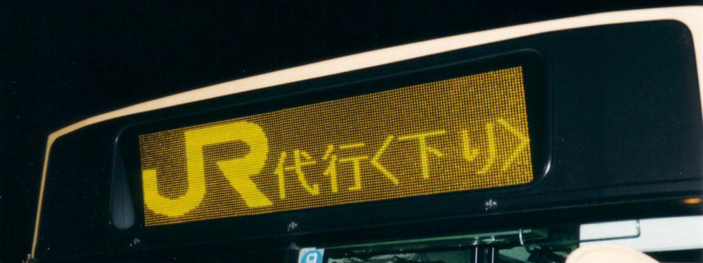 "JR agency" display that exists in vehicle of Kanagawa Chuo Kotsu